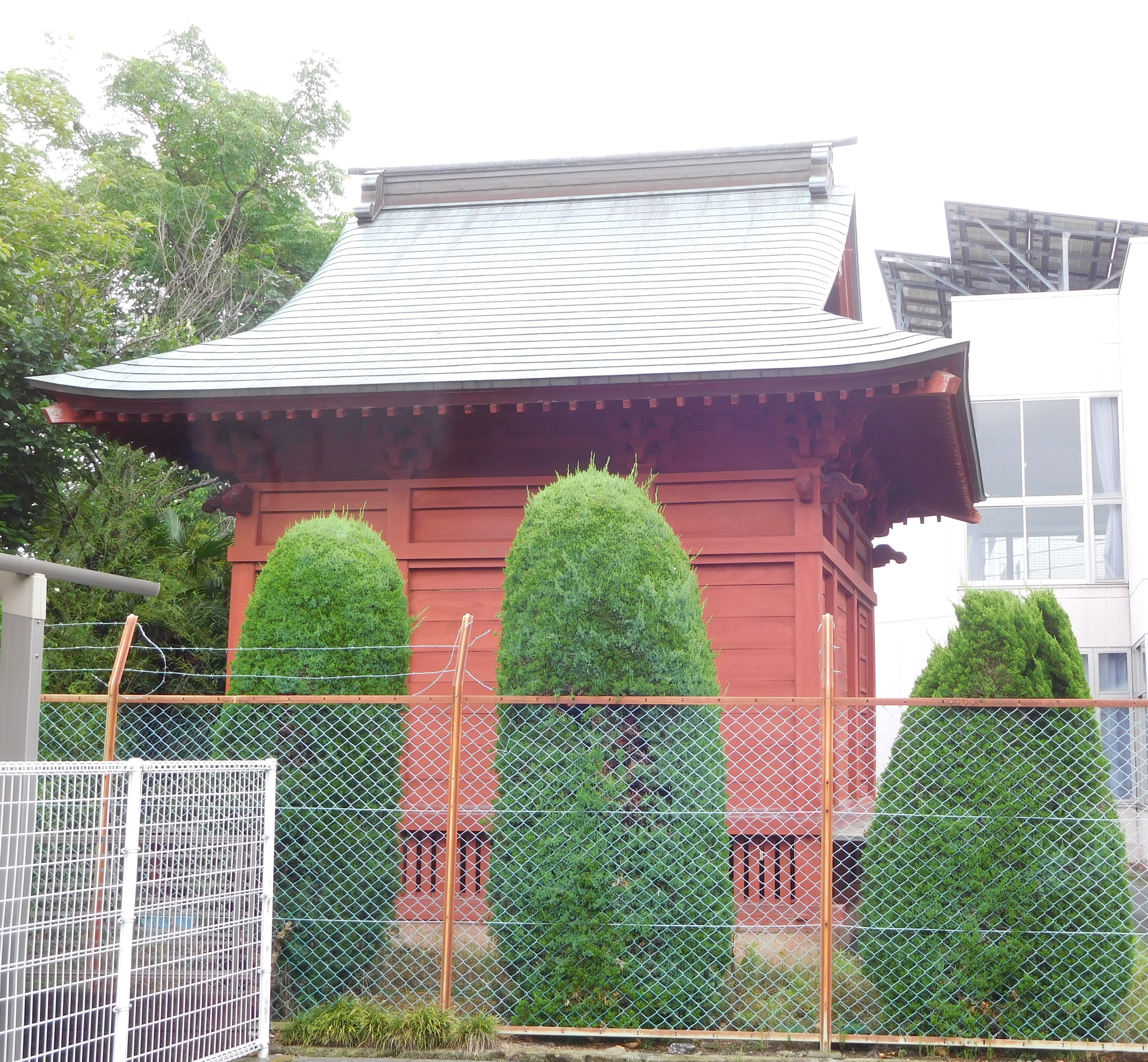 This is Akando Temple in Utsunomiya, Tochigi, Japan.